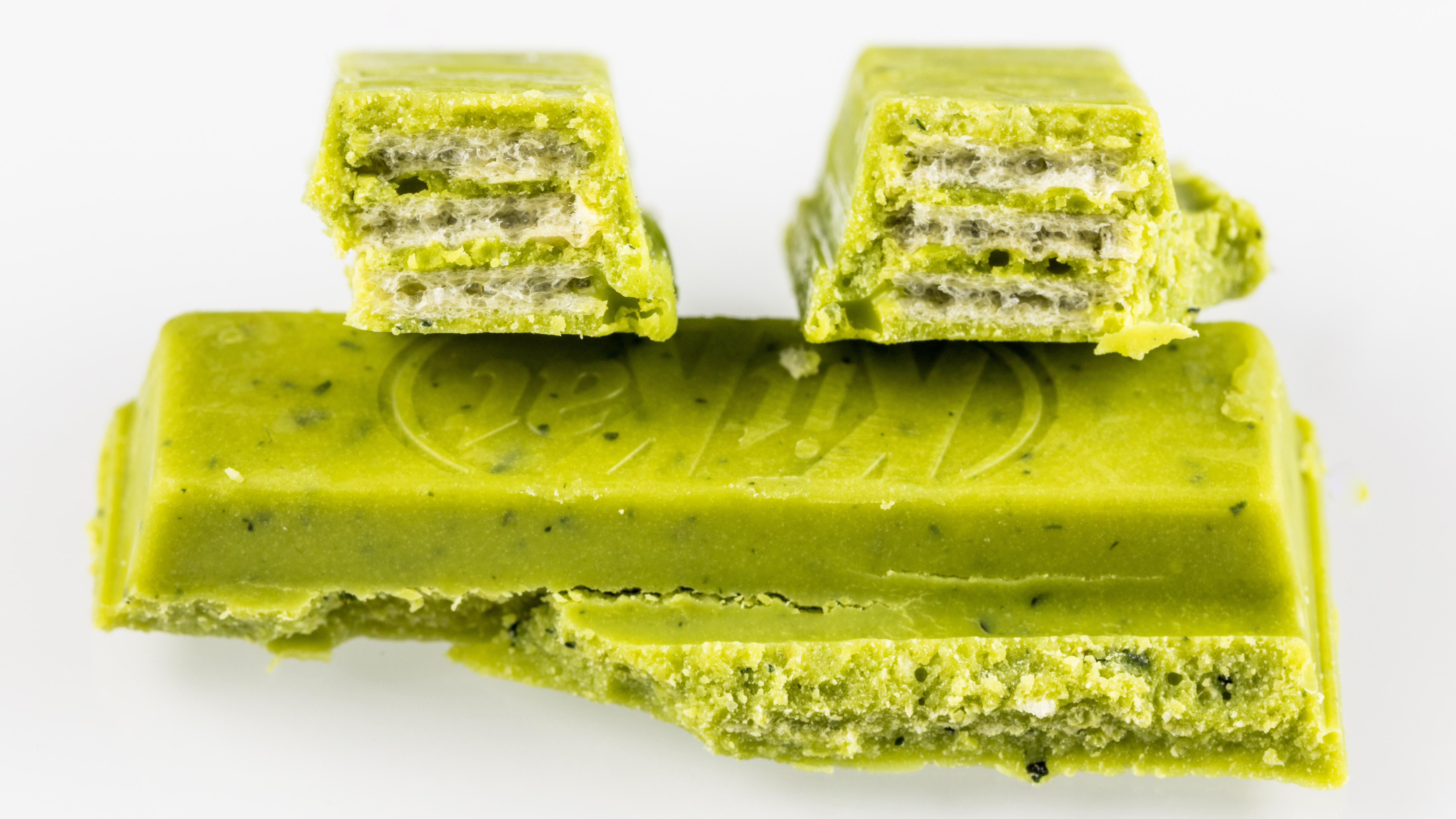 Kit Kat Matcha